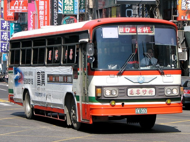 HINO LRK3HMA bus FK-393 of Hsinchu Bus Co., Ltd. "Hsinchu - Hukou" Line.